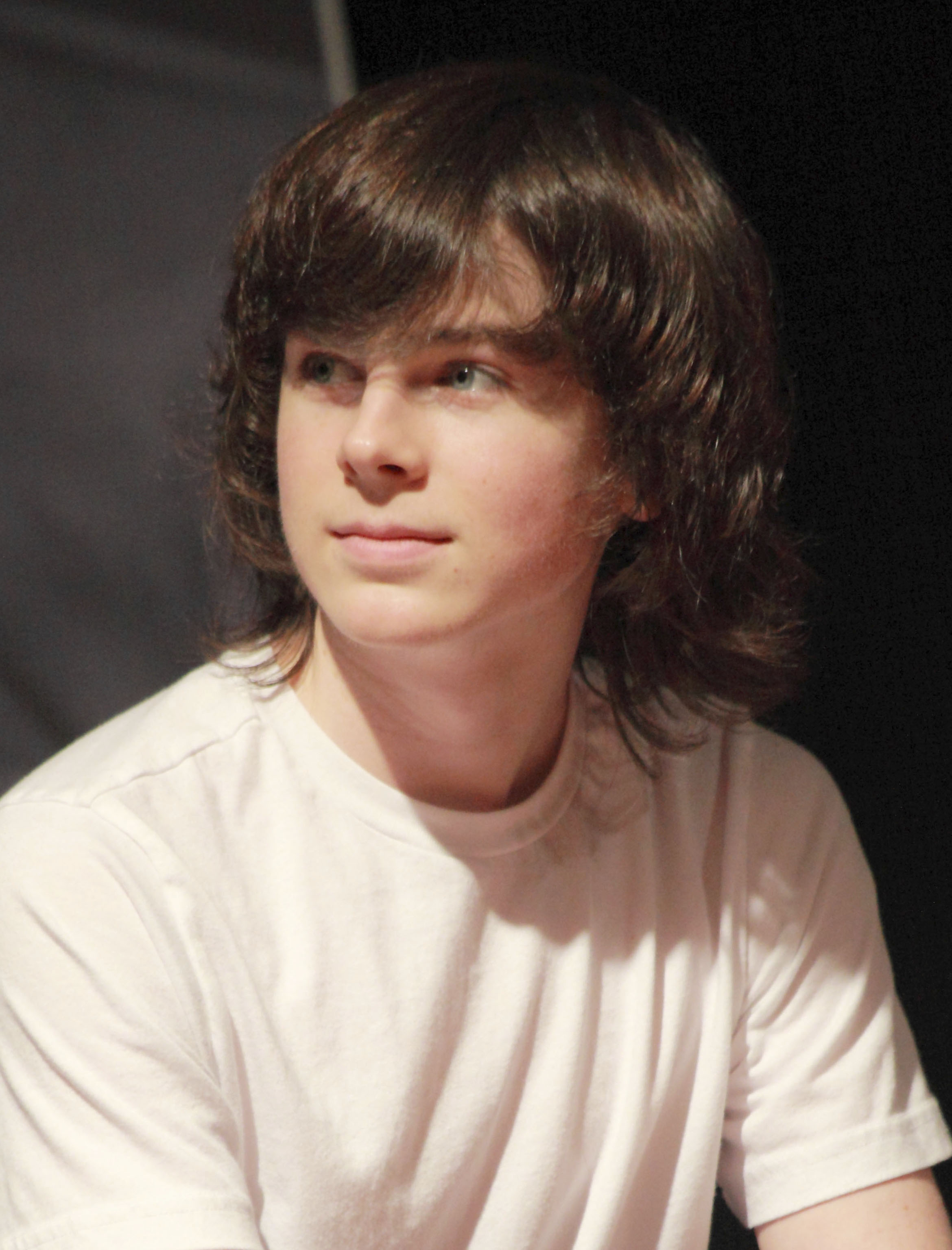 Chandler Riggs at Spooky Empire's Ultimate Horror Weekend 2014 held in Orlando, Florida.